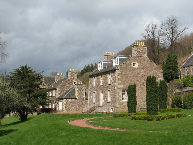 Robert Owen's House, New Lanark Robert Owen (1771-1858) was the enlightened son-in-law of David Dale, the man who built the cotton town of New Lanark. Robert Owen was a social pioneer, who in the age of cruel mill managers and 'dark satanic mills', provided decent homes, fair wages, free health care and a new education system for villagers, which included the first nursery school in the world.